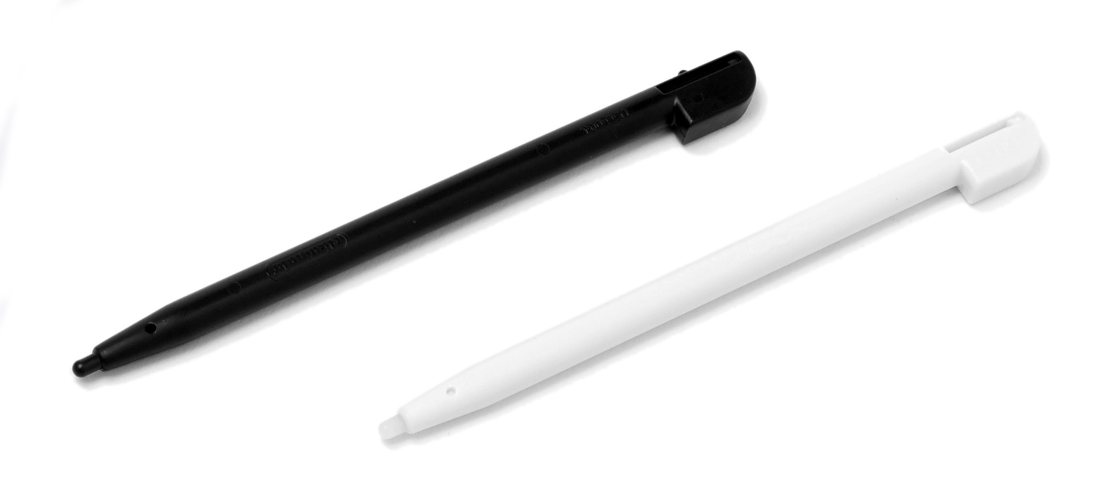 Two examples of styli that work with the Nintendo DS Lite.